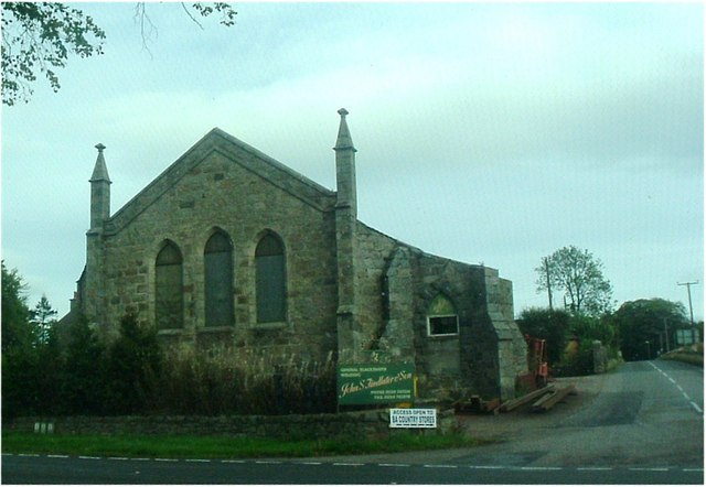 Gairloch Deconsecrated church; now a forge.